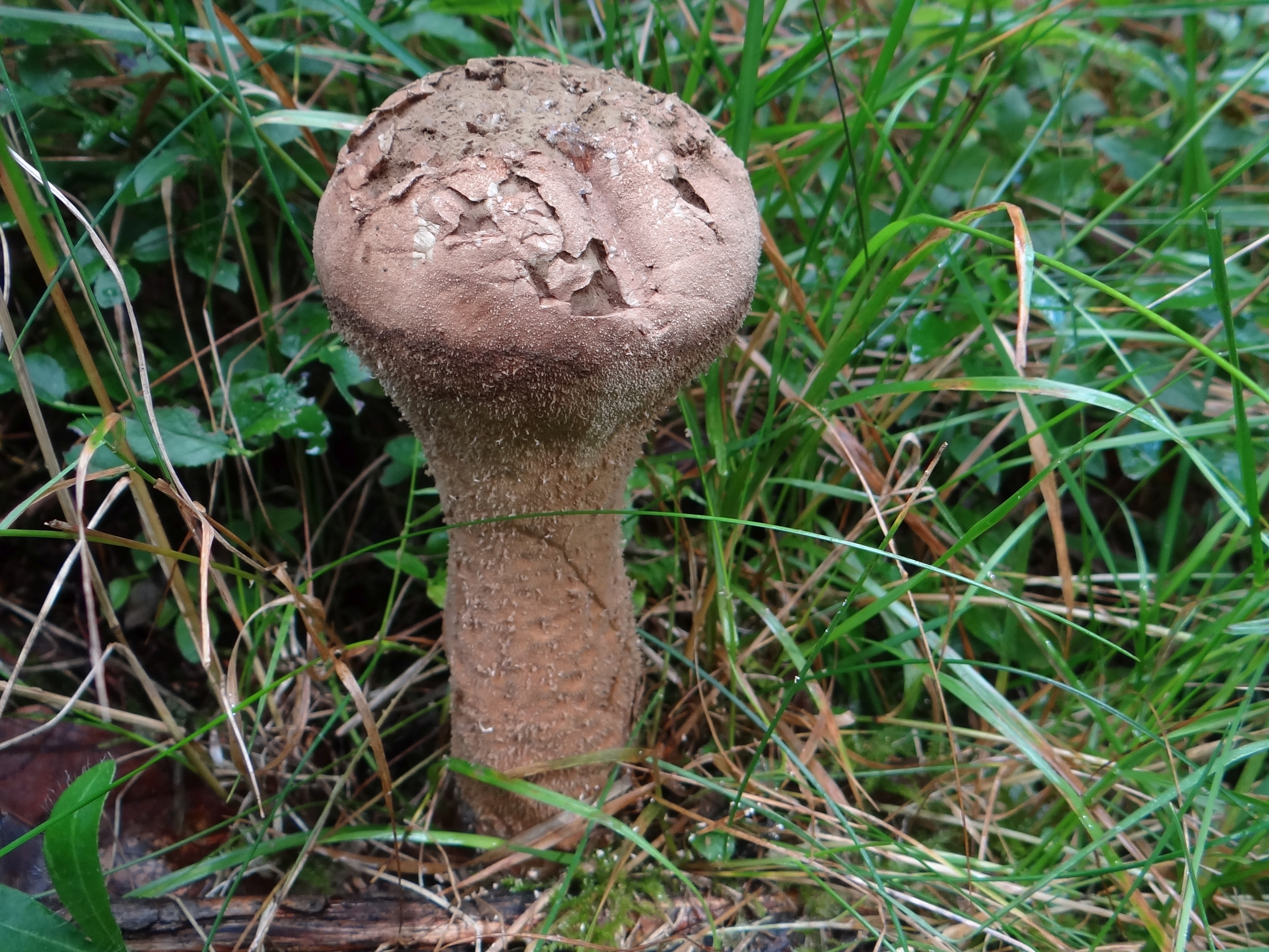 Lycoperdon excipuliforme (location: Poland, Beskid Wyspowy, Kobylica)